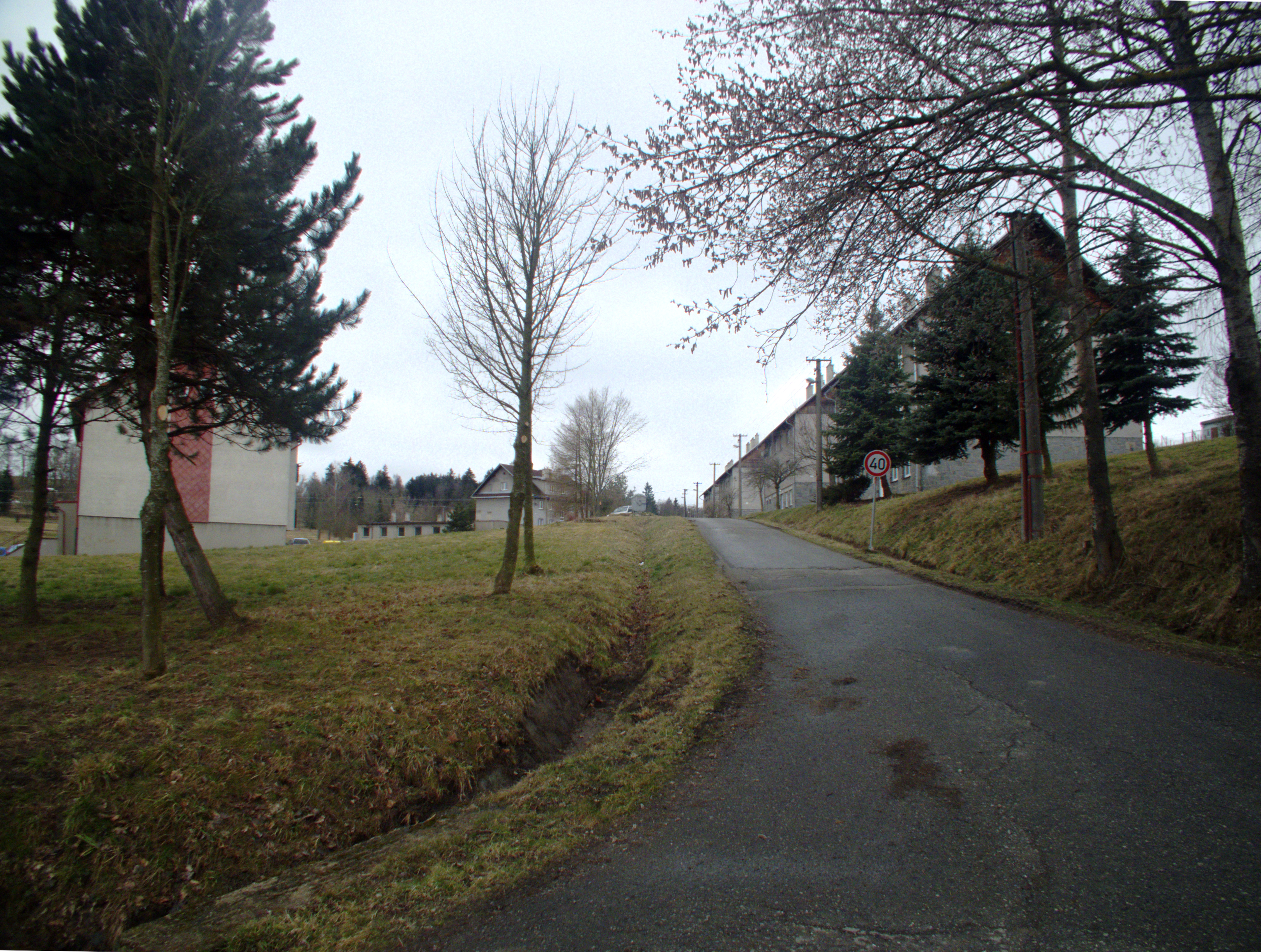 Květušín - the street to the Olšina pond